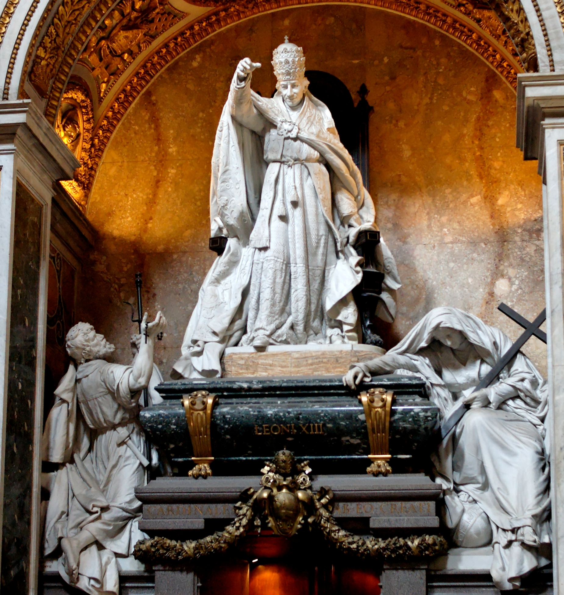 Tomb of Leo XIII by Giulio Tadolini (1907). Left transept of the Basilica of St. John Lateran (Rome).